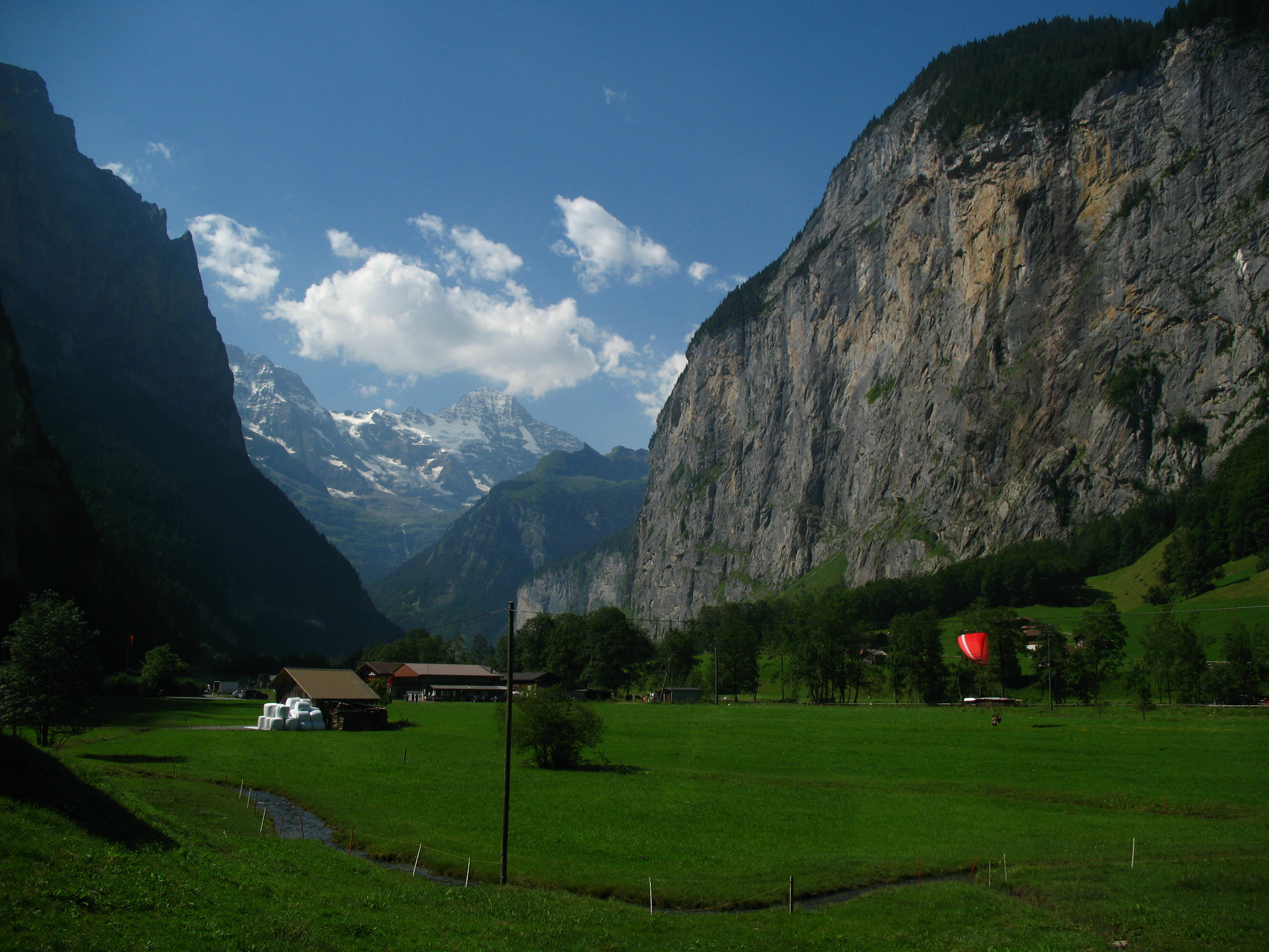 Lauterbrunnen Valley viewed from Lischmaad, Lauterbrunnen, Switzerland - Google Maps - Google Earth